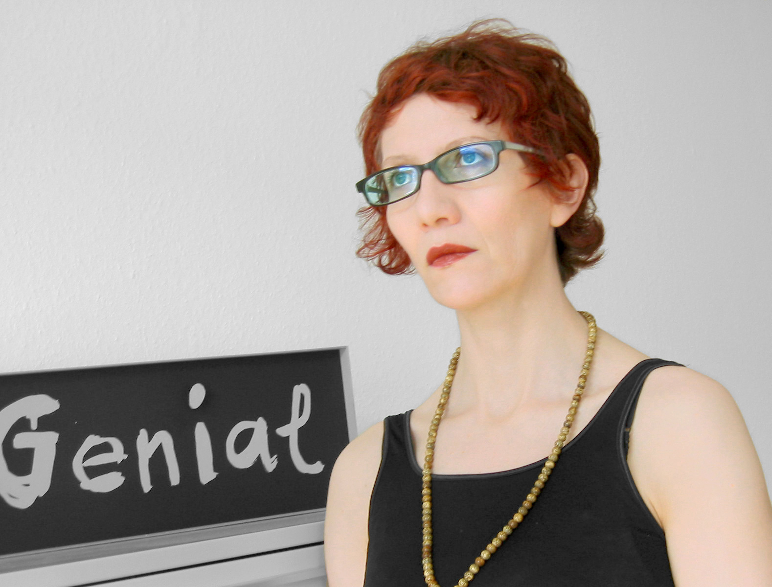 Picture of Cornelia Sollfrank